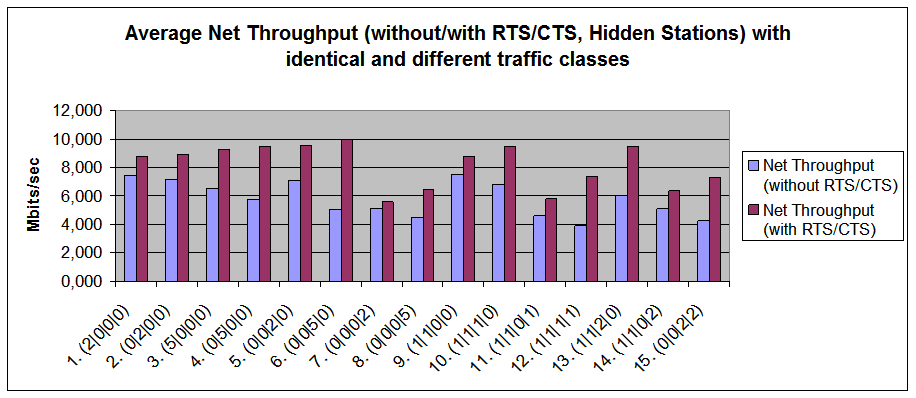 RTS_CTS_Benchmark